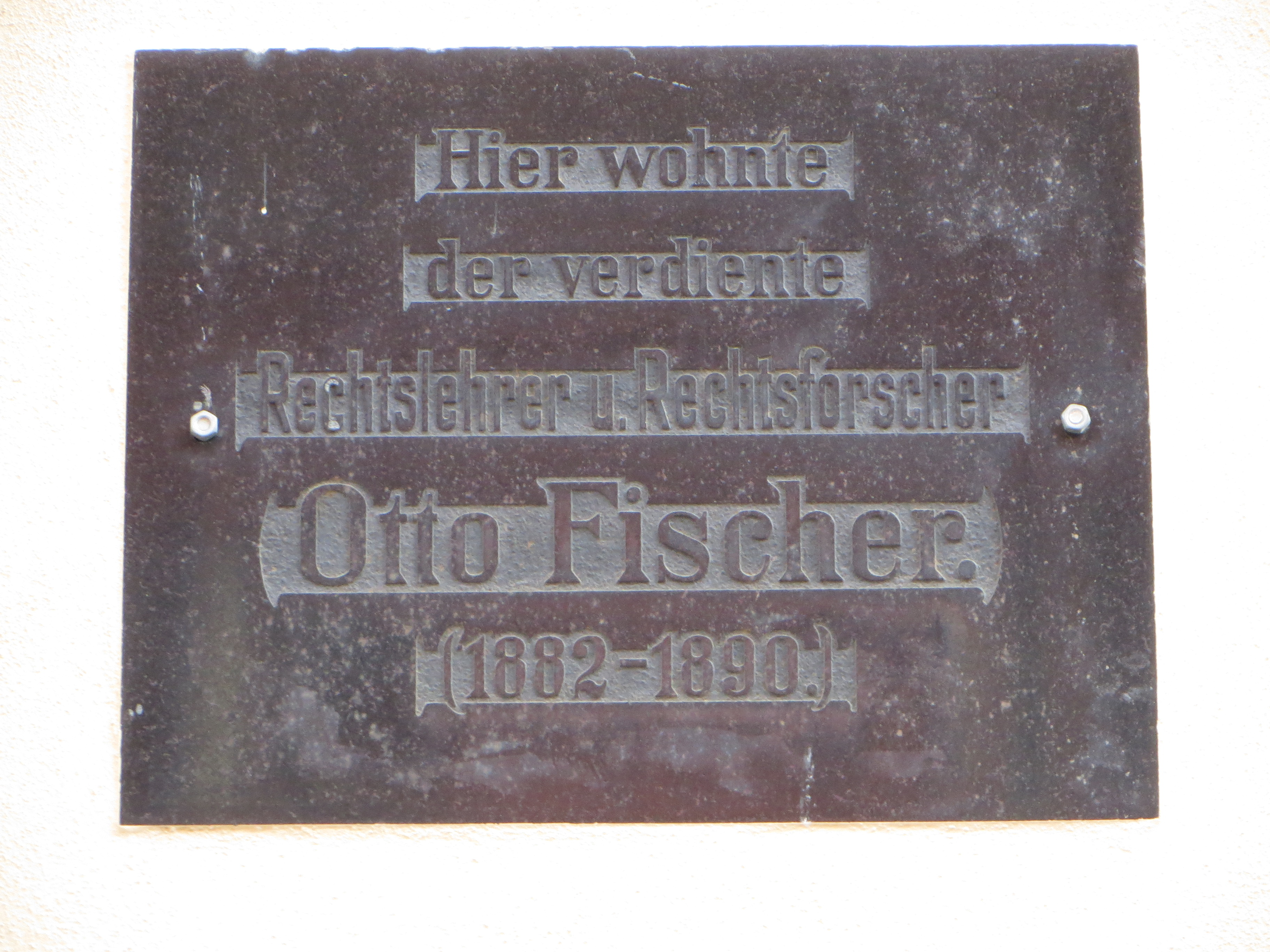 Plaque in Greifswald, Markt 24, commemorating Otto Fischer